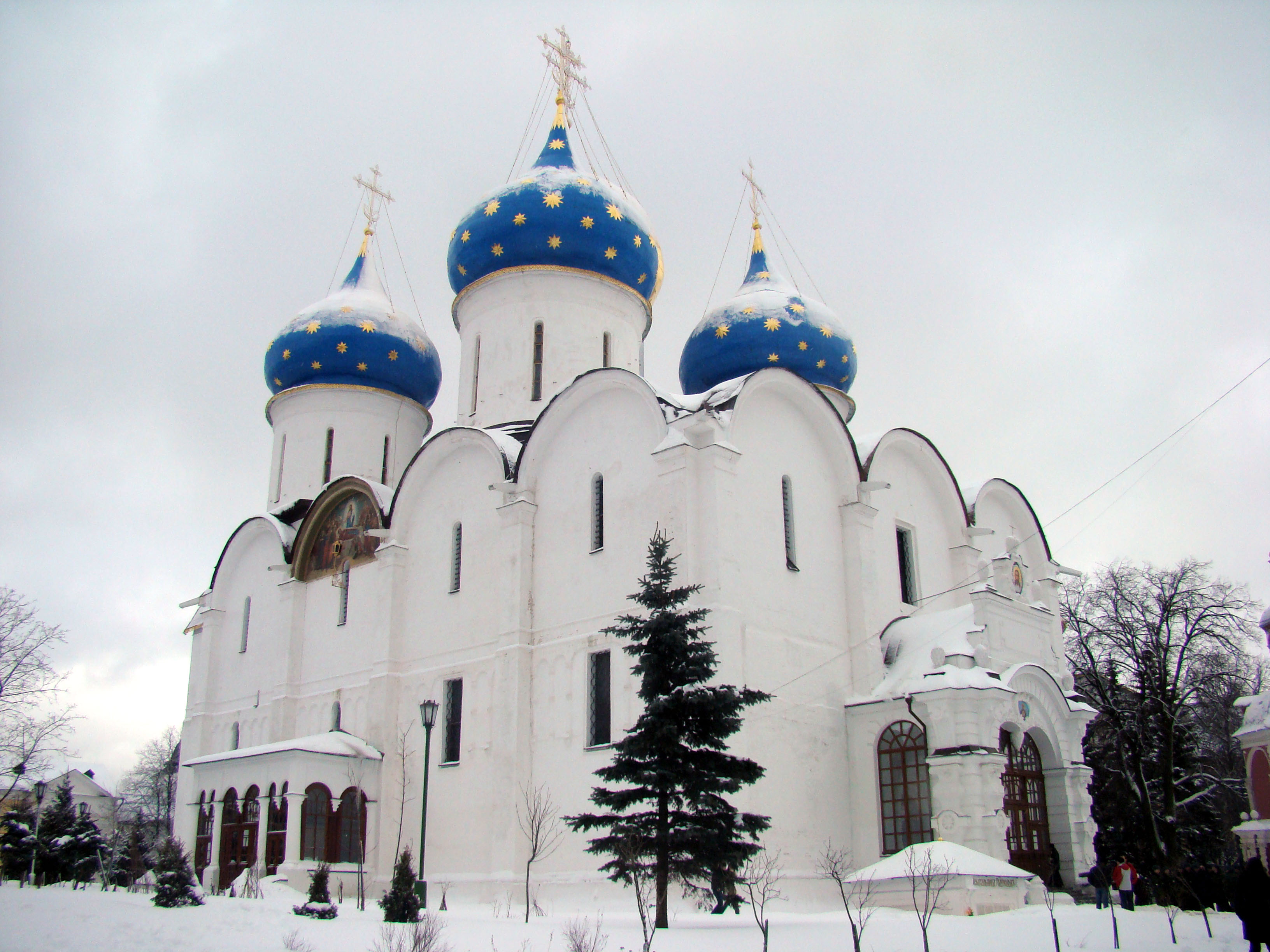 Assumption cathedral. Sergiyev Posad, Russia